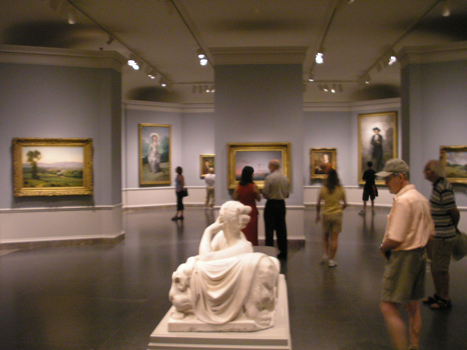 Interior of the West Building of the National Gallery of Art.